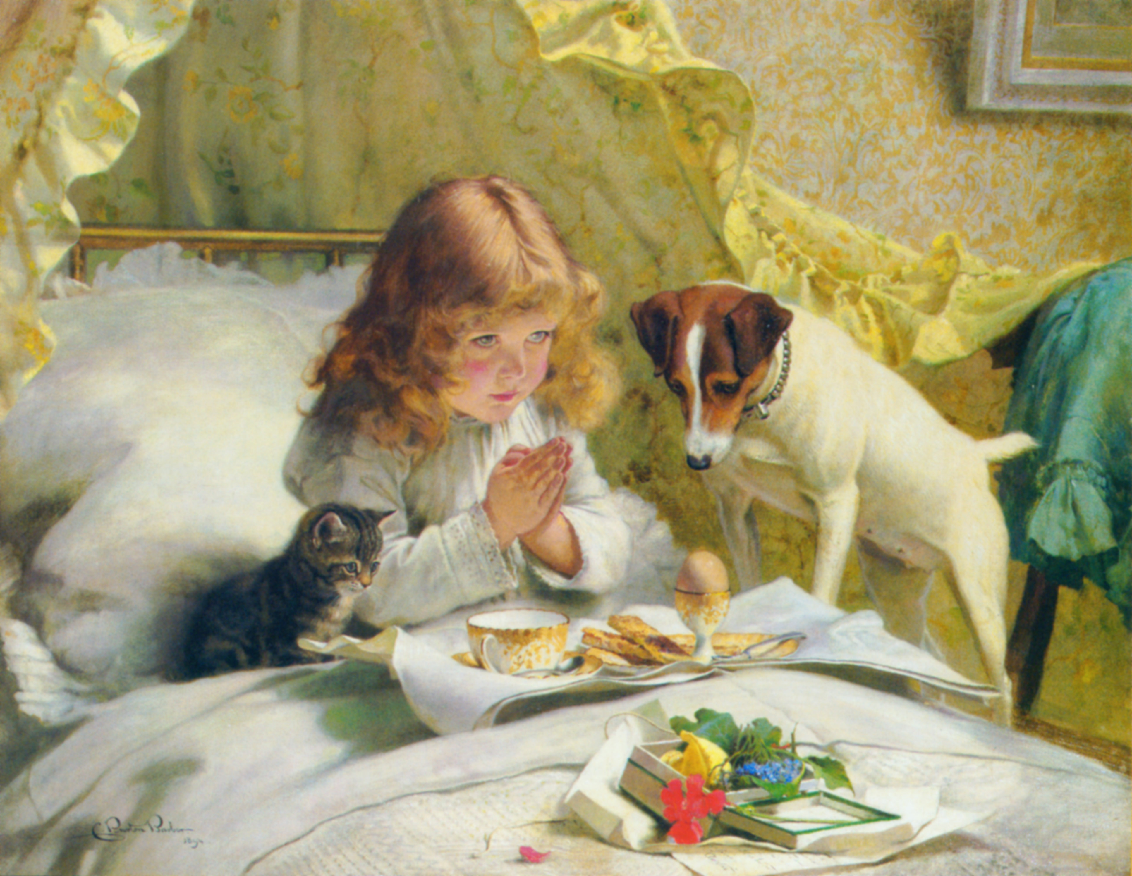 Suspense